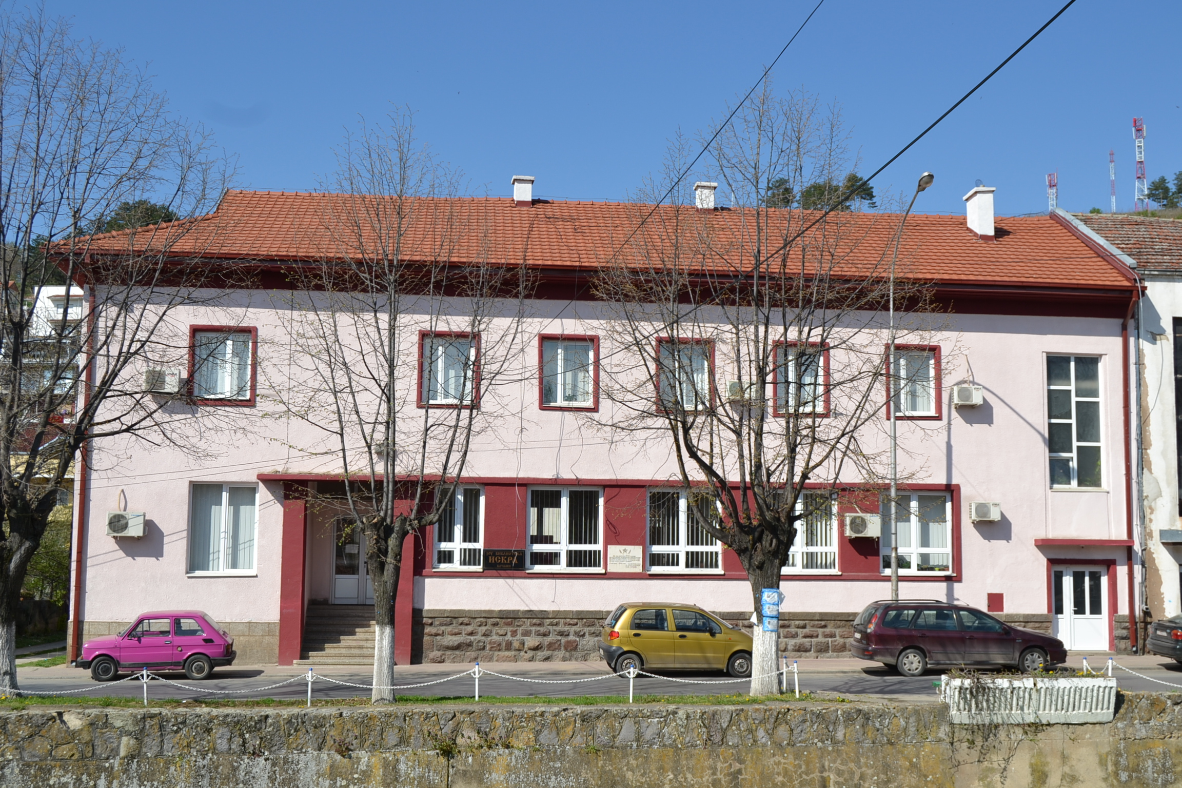 Library “Iskra“ - Kočani